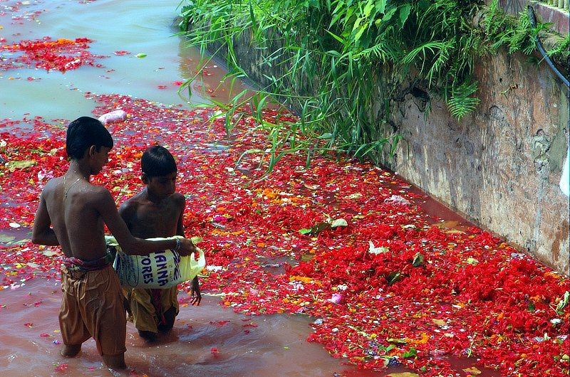 People dump a lot of Hibiscus that has been offered to Kali at the Dakshineshwar temple in Kolkata, West Bengal, India.